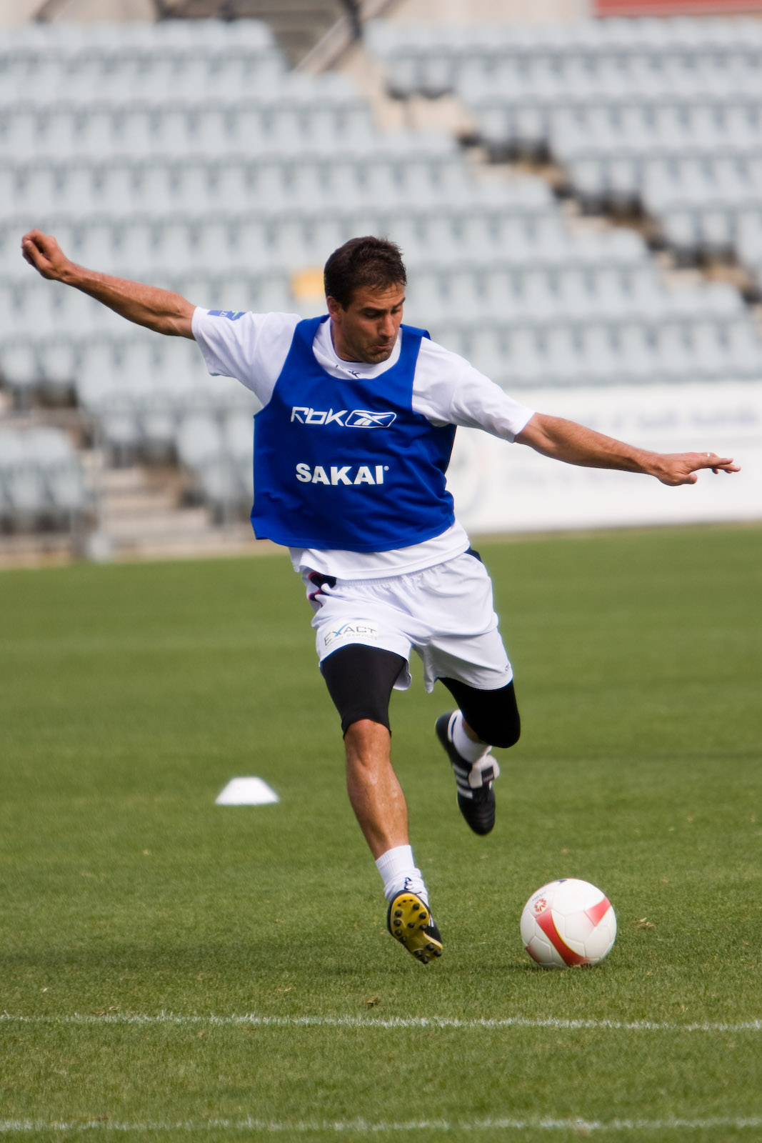 Paul Agostino